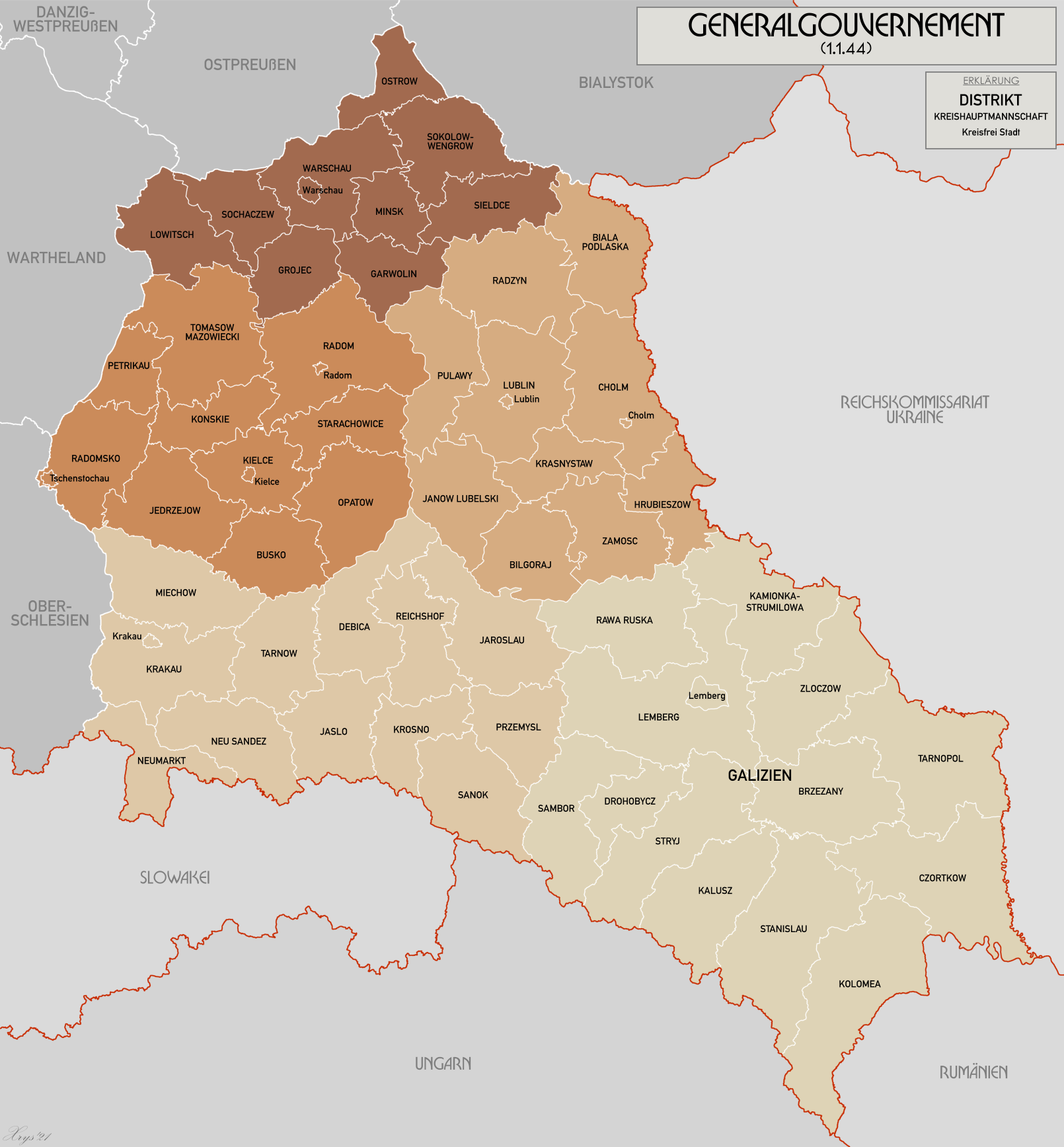 Administrative map of the Generalgouvernement für die besetzten polnischen Gebiete.